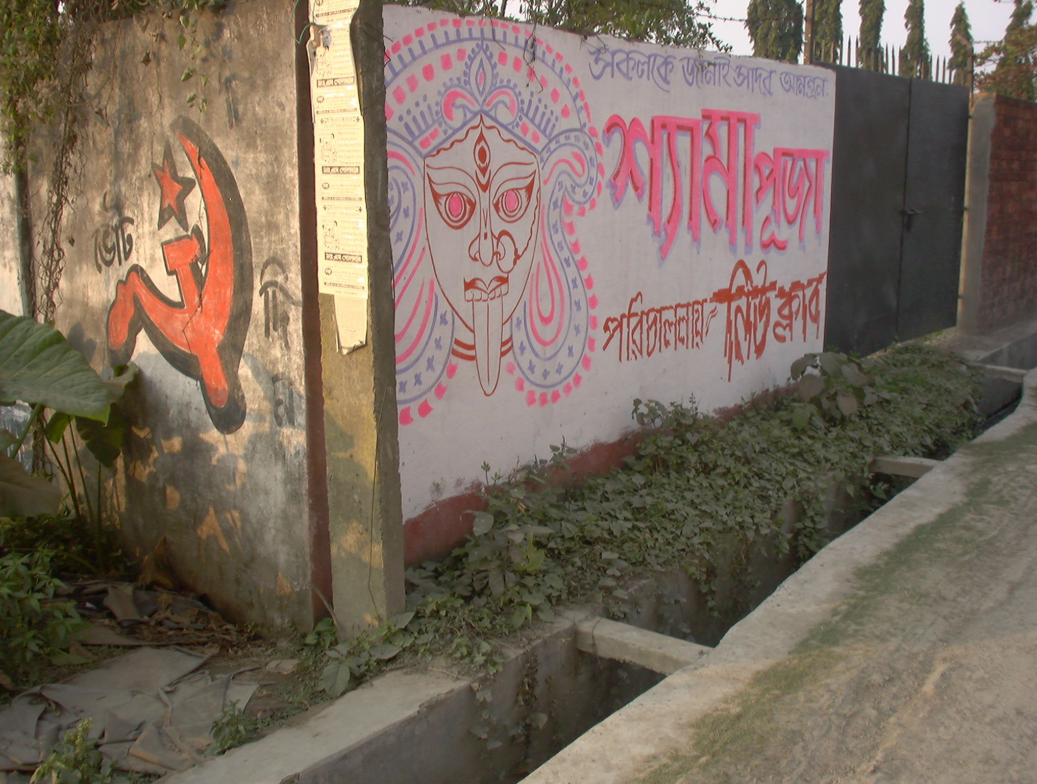 Hindu goddess Kali with written invitation for Kalipuja (festival), near Kolkata. On left side, an election mural of the Communist Party of India (Marxist)